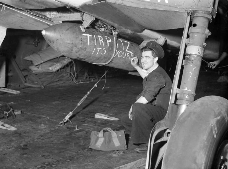 IWM caption : The men and machines of HMS FURIOUS which took part in the Fleet Air Arm attack on SMS TIRPITZ in Alten Fjord, Norway. Here Bob Cotcher, of Chelsea, chalks his message on a 1600 pound bomb just before the attack. Comment : The aircraft is a Fairey Barracuda.